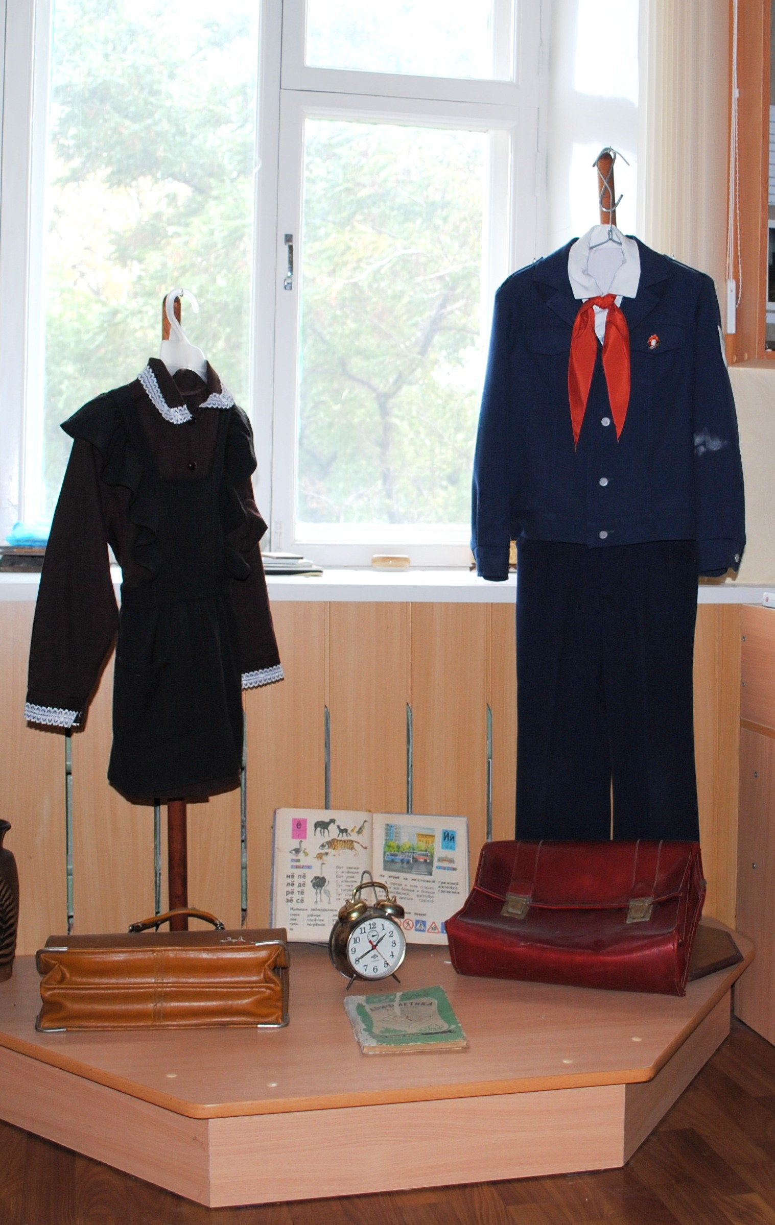 History Museum of Livny.